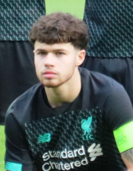 Top row: Elijah Dixon-Bonner, Winterbottom, Sepp Van Den Berg, Luis Longstaff, Ki-Jana Hoever, Thomas Hill Bottom row: Jack Cain, Leighton Clarkson, Neco Williams, James Norris, Harvey Elliott